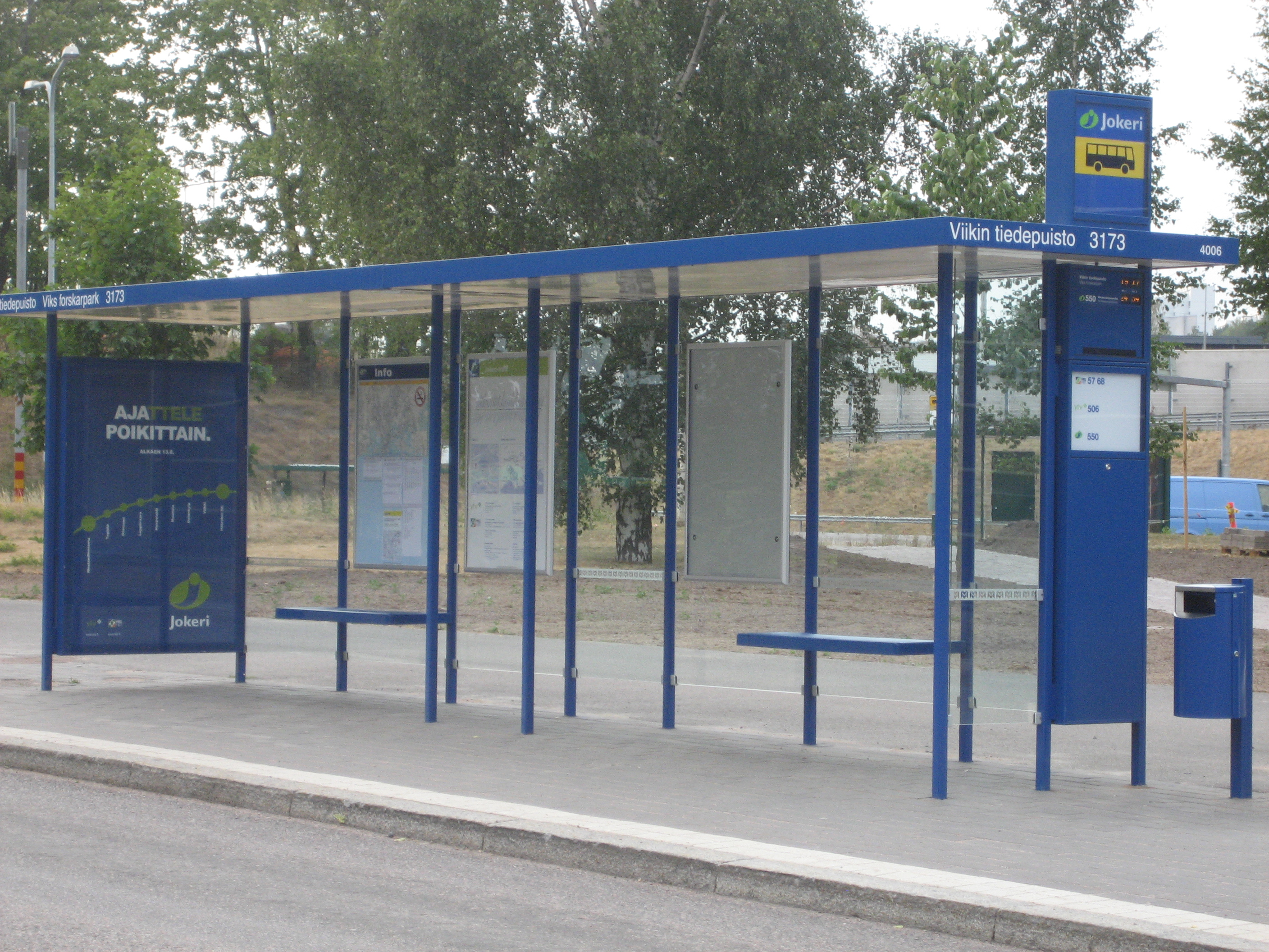 A bus stop on the Jokeri-line in Viikki, Helsinki